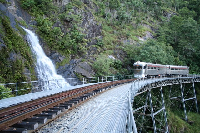 A photo of the Savannahlander ("The Silver Bullet"—1963 Class 2000 railmotor units) passing Stony Creek Falls, near Cairns, Australia.